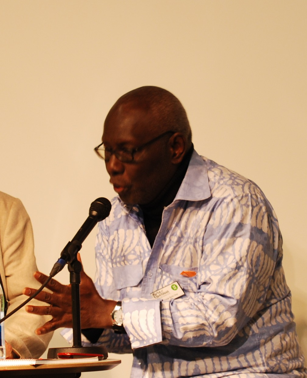 Senegalese writer Boubacar Boris Diop at Göteborg Book Fair 2010.